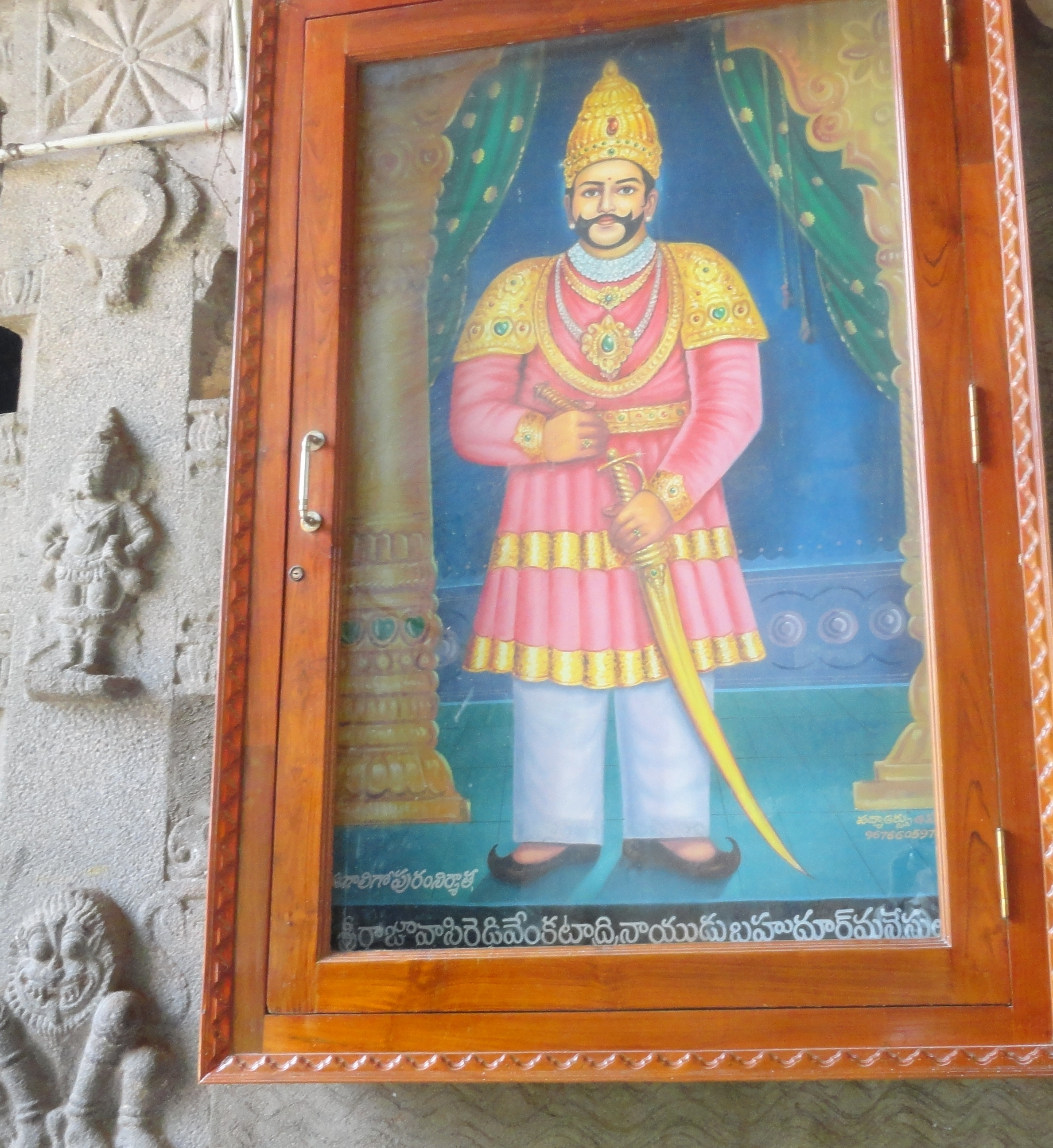 The king raja venktadri naidu.patriot